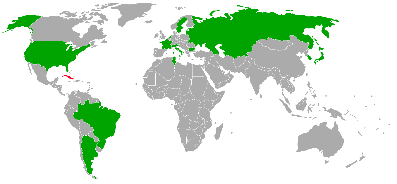 Volleyball at the 1988 Summer Olympics – Men's volleyball